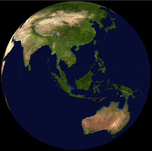 Geography of Malaysia in Southeast Asia based on a satellite picture.